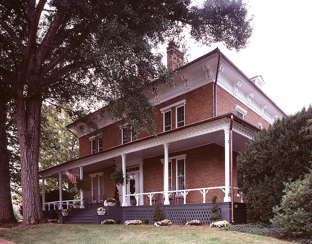 View of the President's House, Washington and Lee University, Lexington, Virginia. The house was begun in 1868 as a residence for General Robert E. Lee and was designed by C. W. Oltmanns. The photograph is from the Carol M. Highsmith Collection, Prints and Photographs Division, Library of Congress, Washington, D.C. The Highsmith collection was donated to the U.S. government and there are no known restrictions on publication.[1]